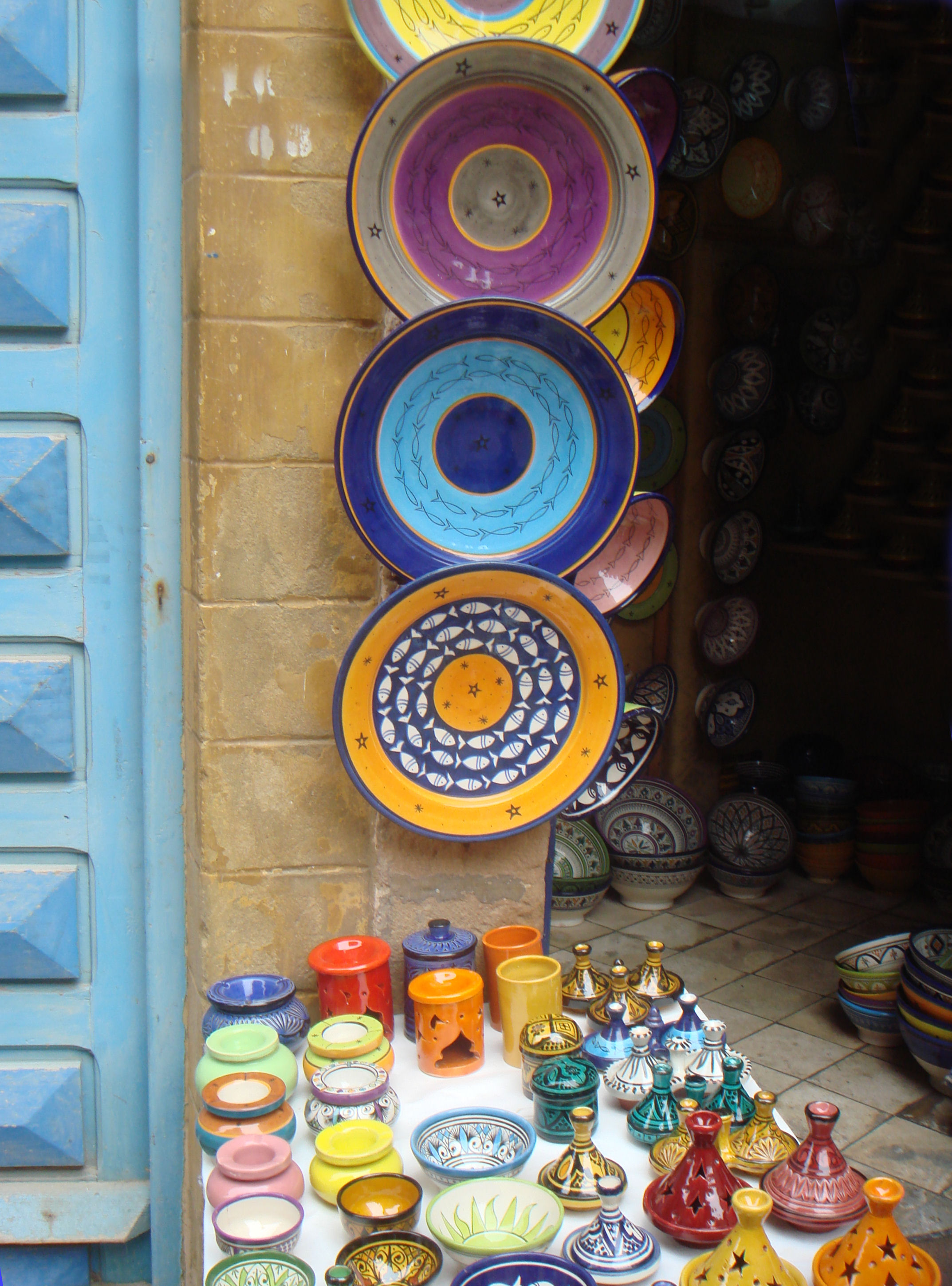 Faience_in_Essasouira